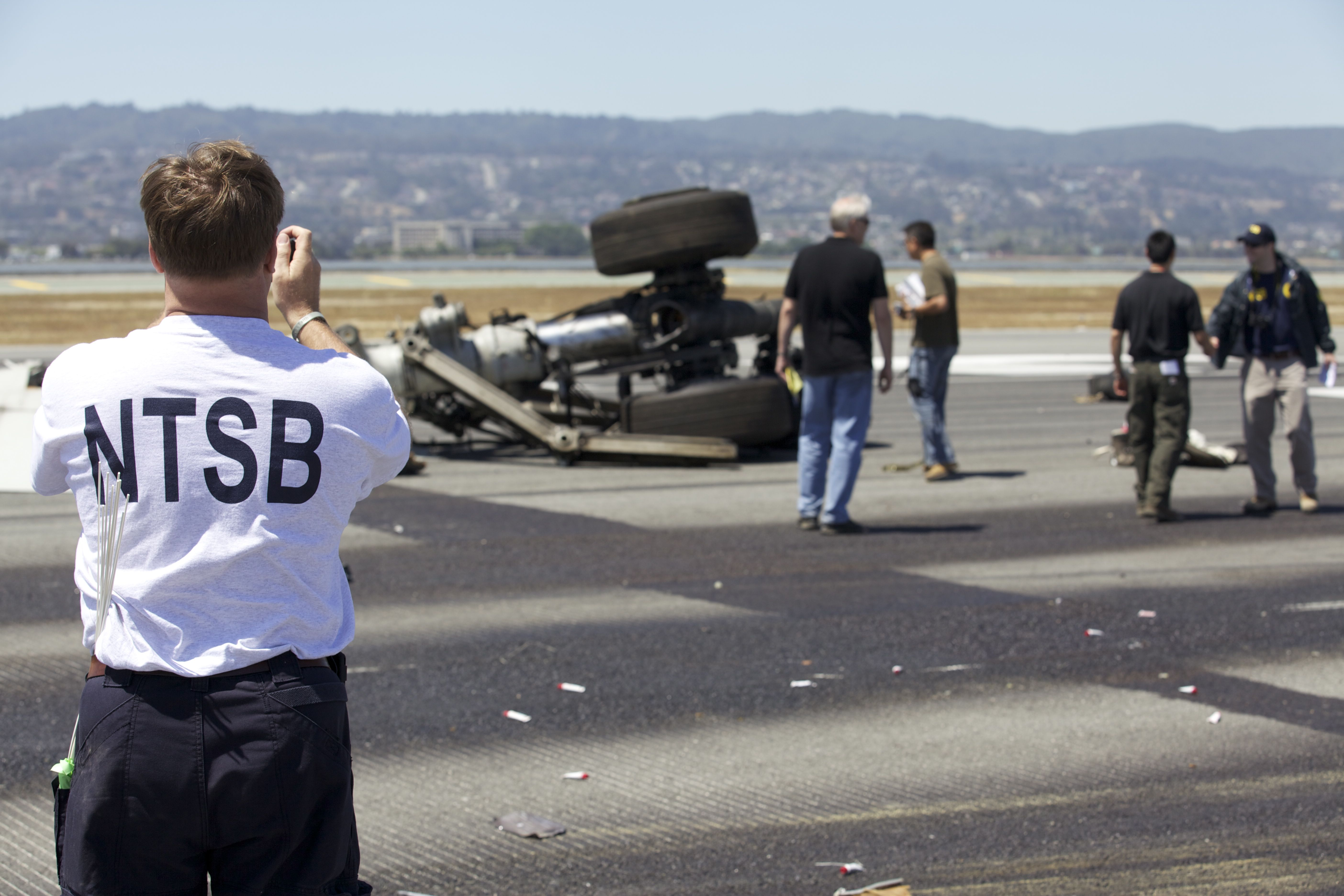 NTSB investigators look at portion of Asiana Airlines Flight 214's landing gear.